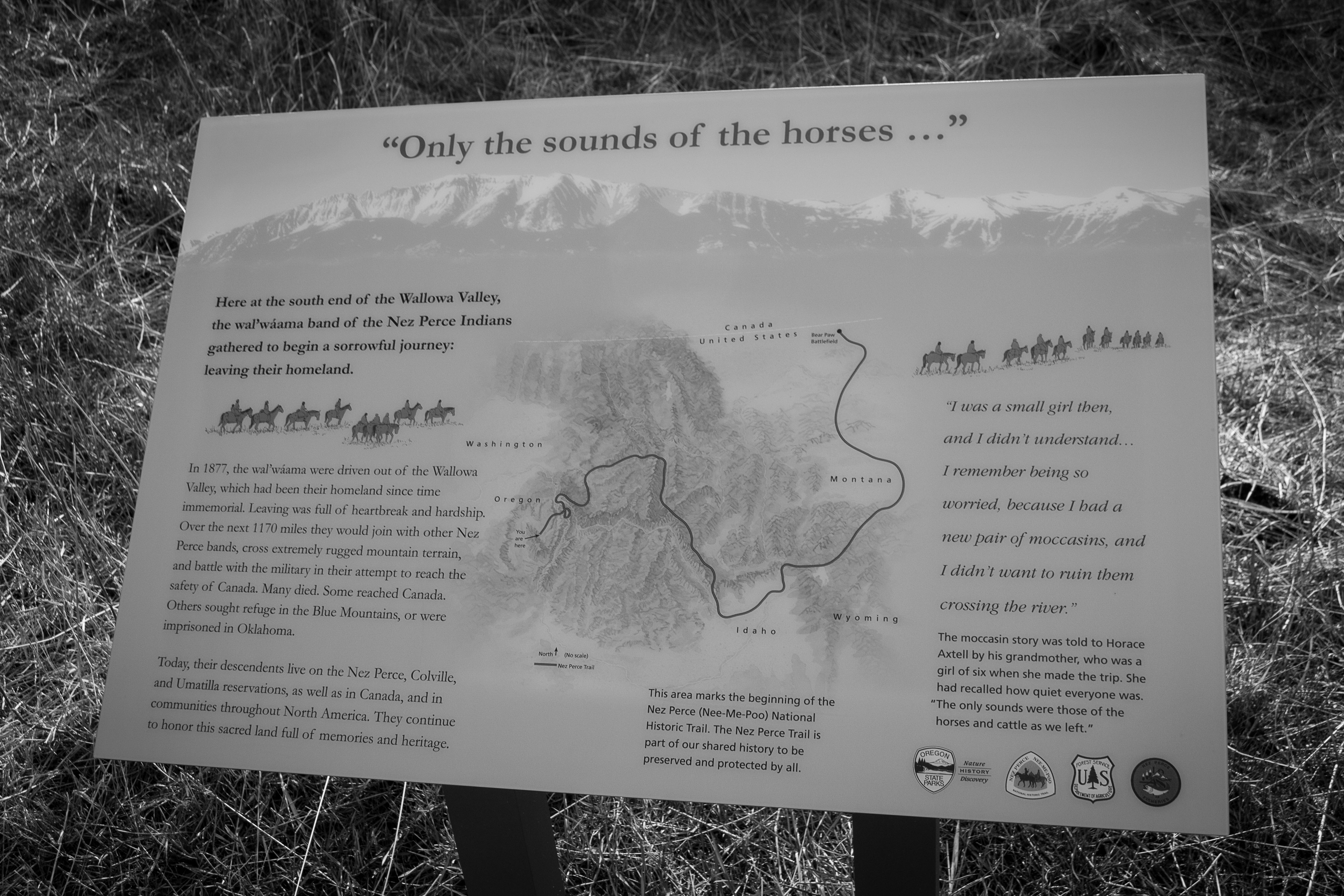 Nez Perce National Historic Trail reader board at the Iwetemlaykin State Heritage Site